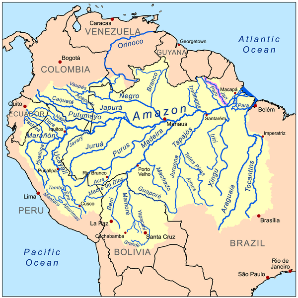 This is a map of the Amazon River drainage basin with the Jari River highlighted